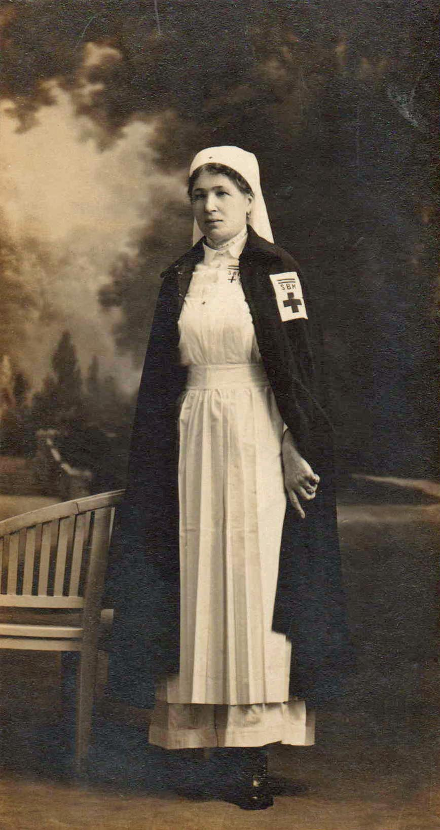 Militaria Photo SSBM Nurse (Relief Society for Military Wounded), founded in 1864, ancestor of the Red Cross (1914-1918)